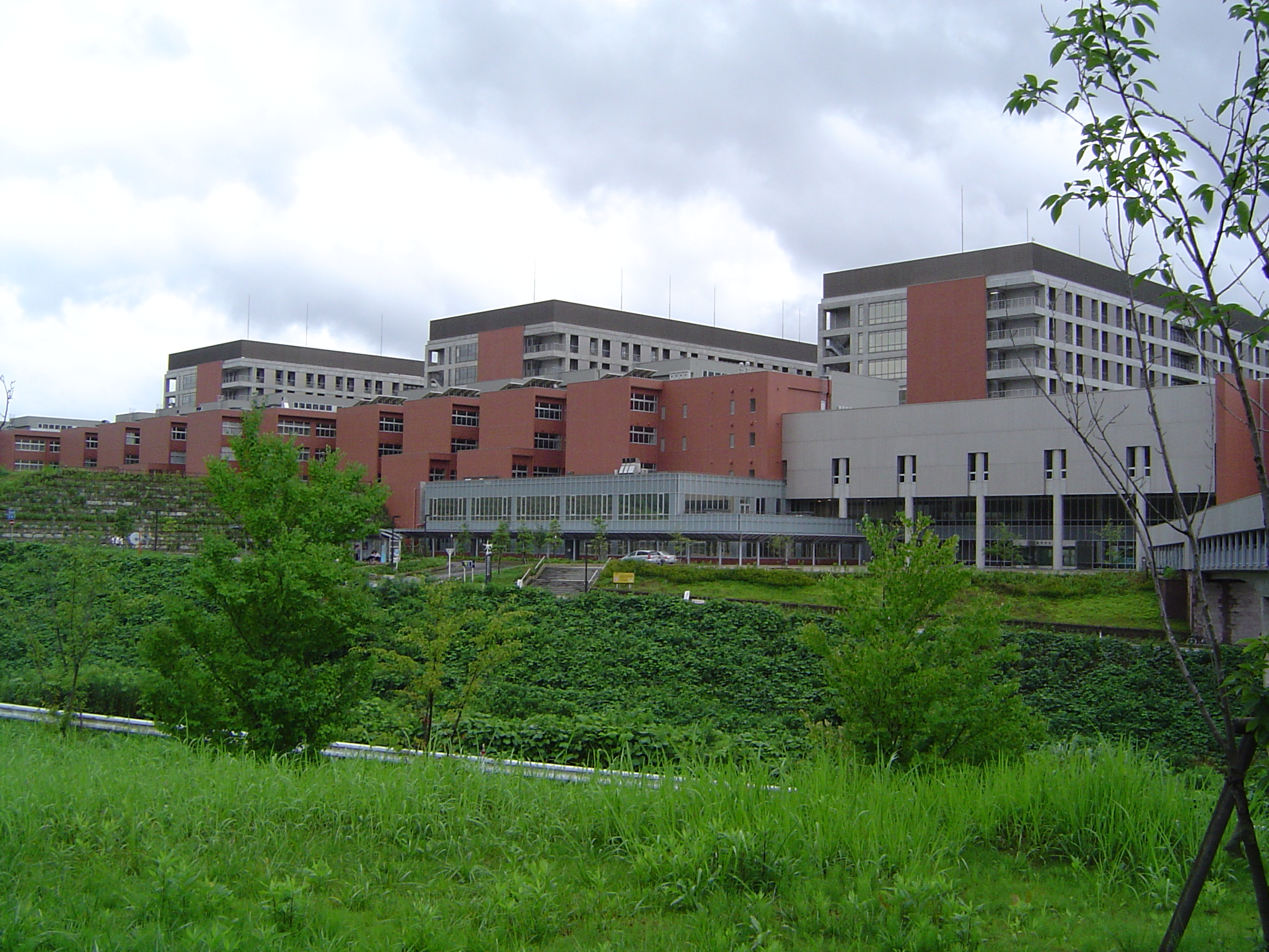 Kanazawa Univ. Kakuma Campus (South)